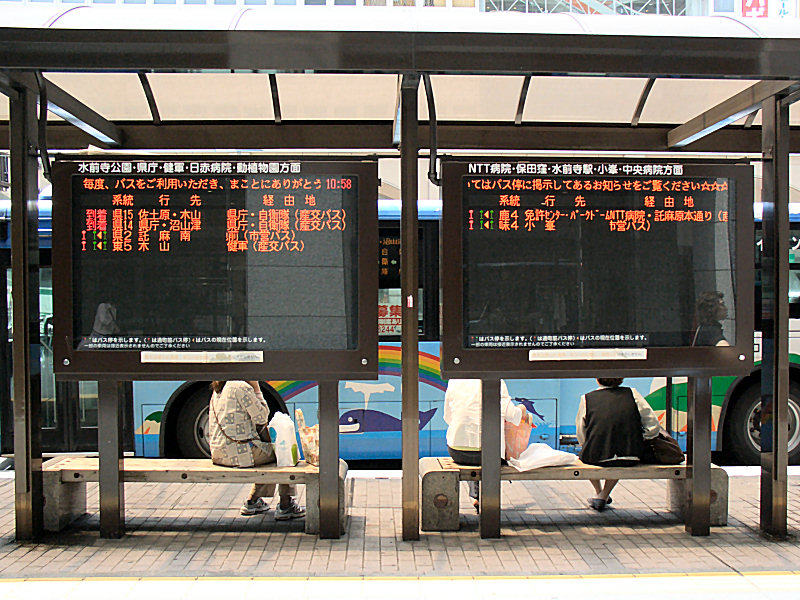 A bus location board at Torichosuji Bus Stop in Kumamoto City, Kumamoto Prefecture, Japan